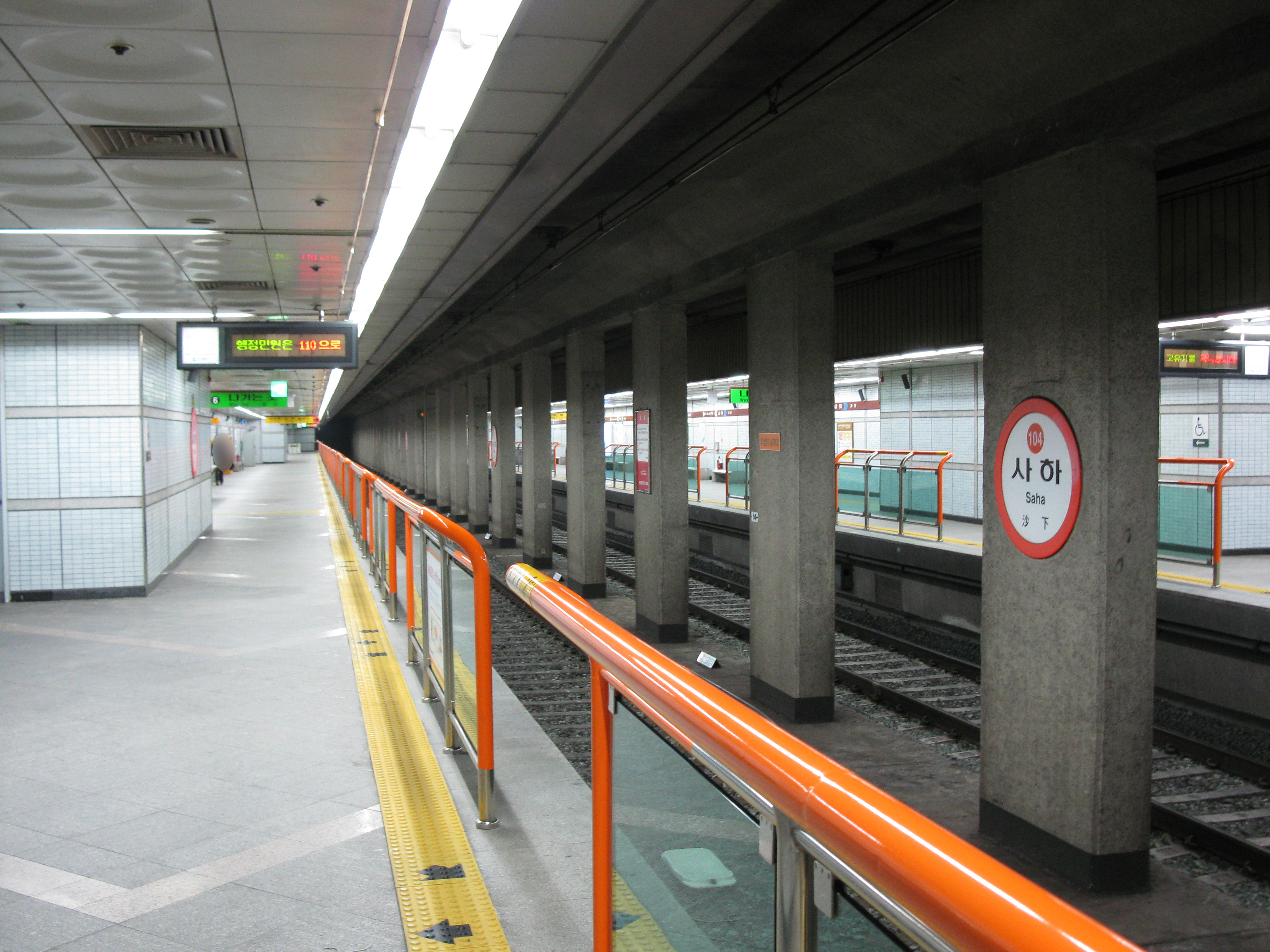 Saha Station platform (Busan Subway Line 1)